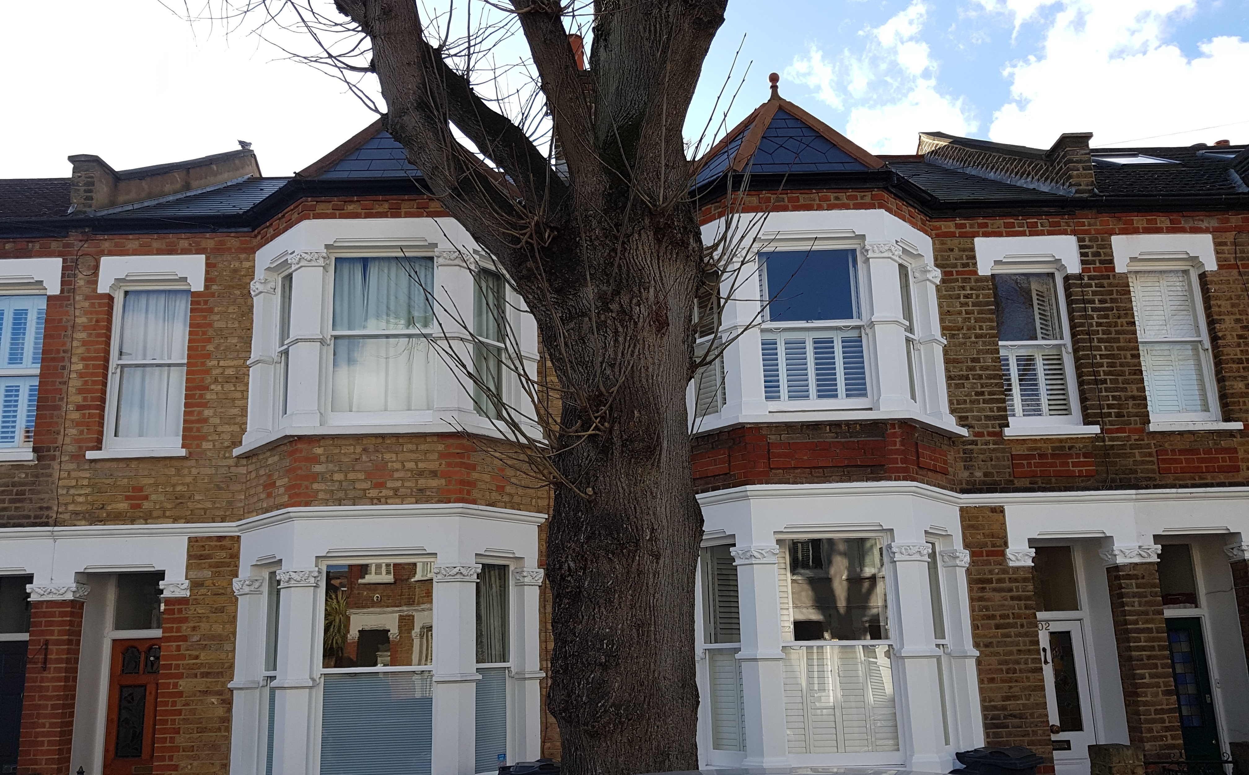 Housing